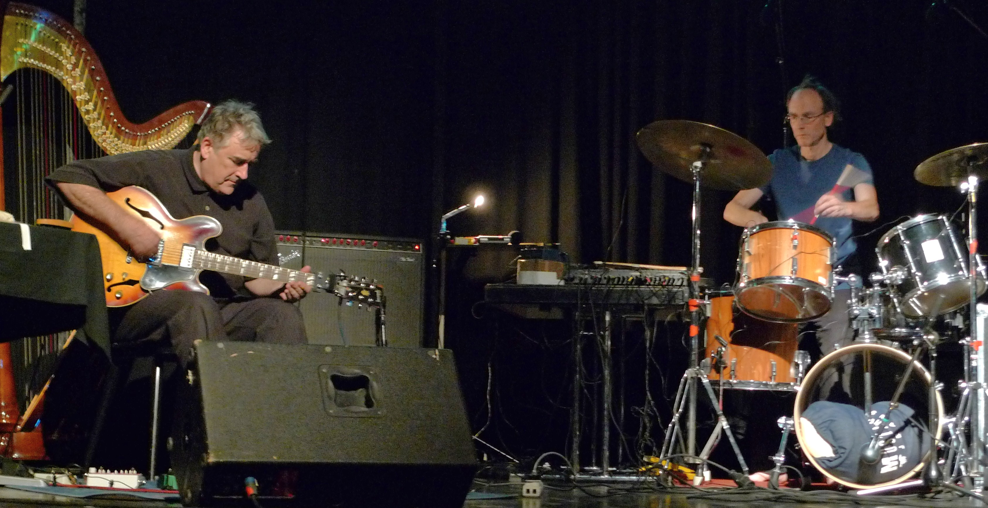 Fred Frith (left) and Chris Cutler performing at the Music Unlimited 23 festival in Wels, Austria on 2009-11-08.